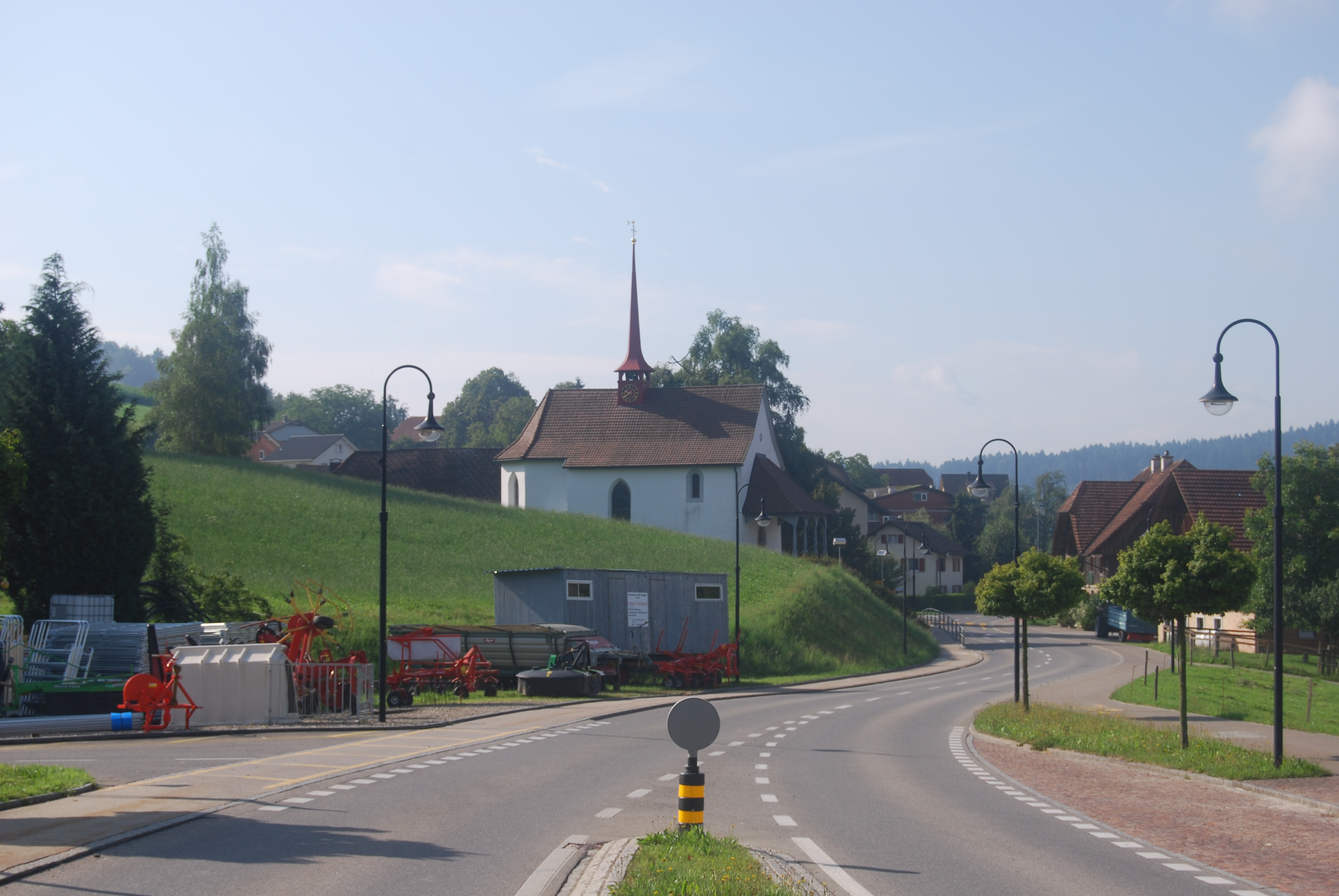 Chapel St. Aper Fischbach, canton of Lucerne, Switzerland